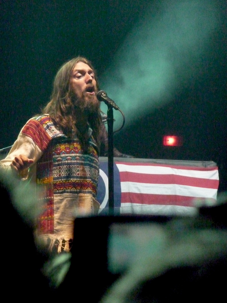 Chris Robinson (The Black Crowes) in 2009.